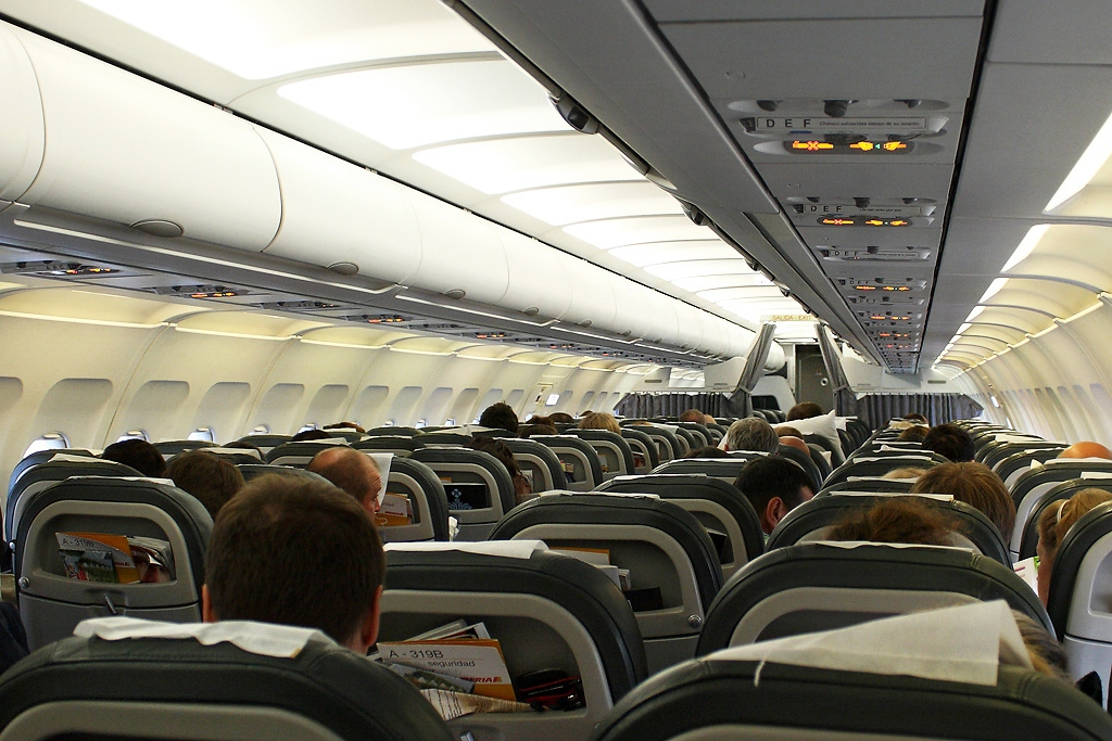 Before DME - MAD nonstop flight. Shot from 25 row.